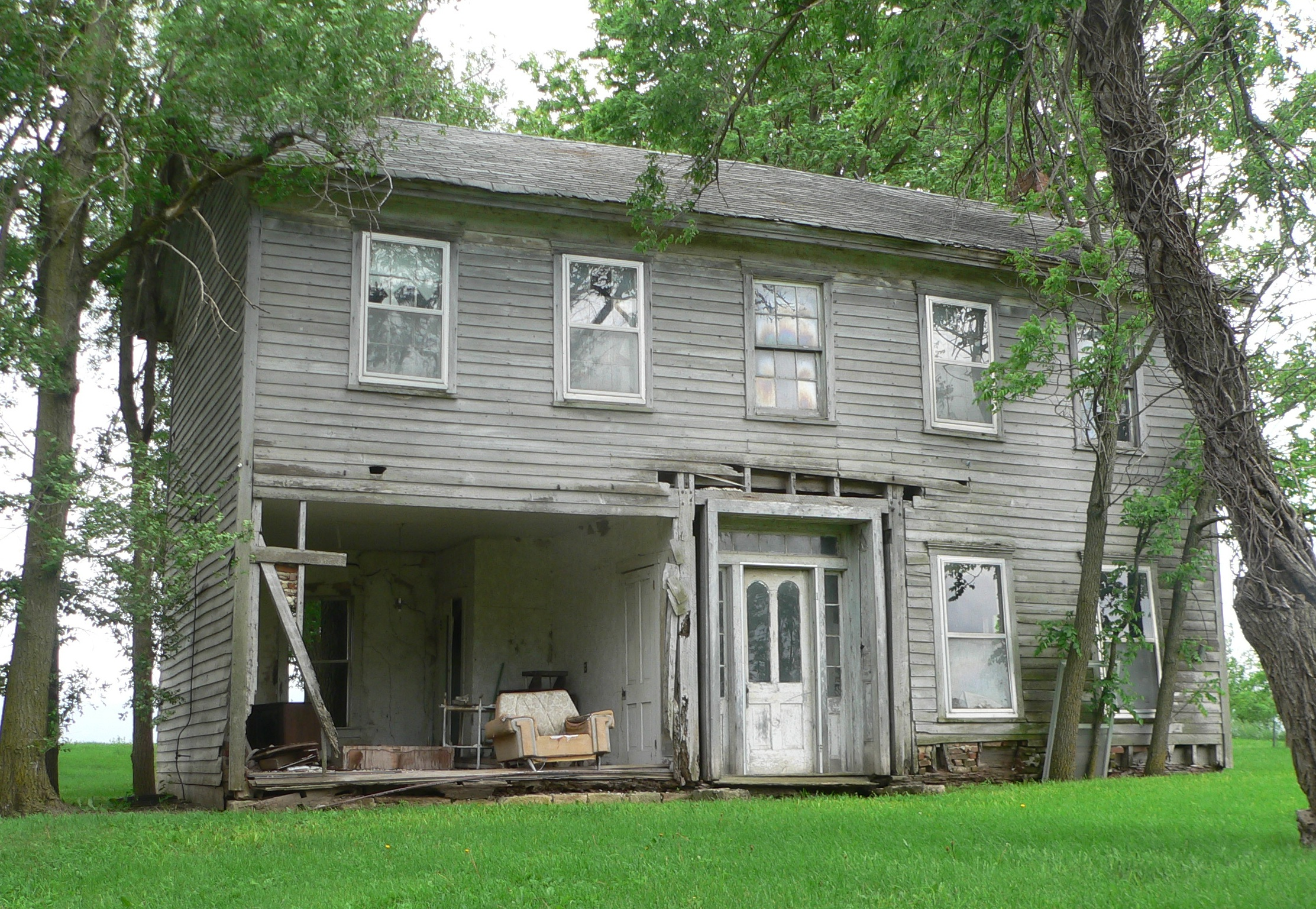 John W. Bennett house, located just southeast of the intersection of U.S. Highway 136 and southbound Nebraska Highway 67, about a mile west-southwest of Brownville, Nebraska. View is from the northeast.